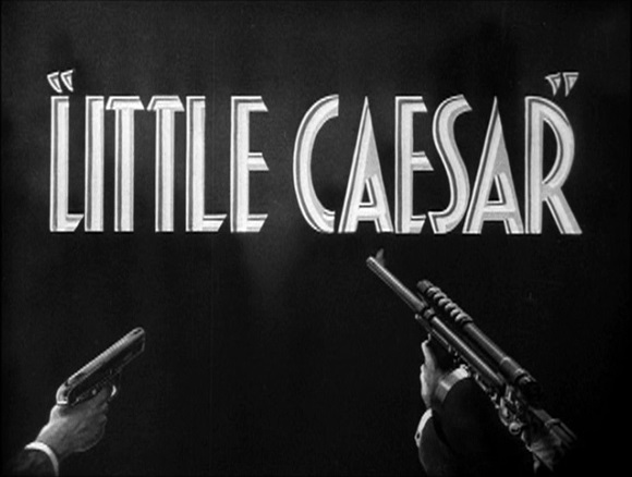 Screenshot from the trailer to the movie "Little Caesar" (1931)